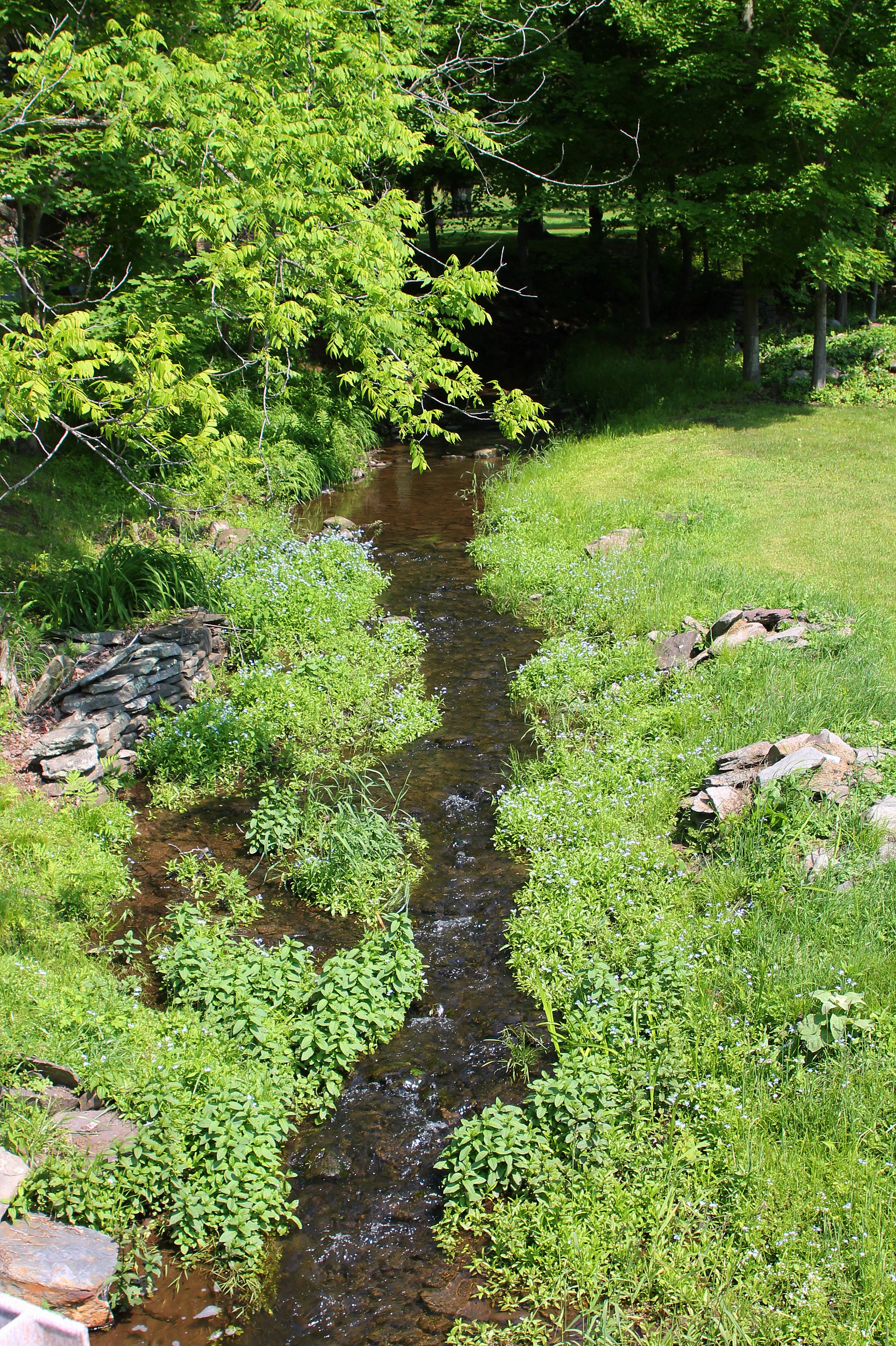 Pikes Creek looking upstream from Pennsylvania Route 118